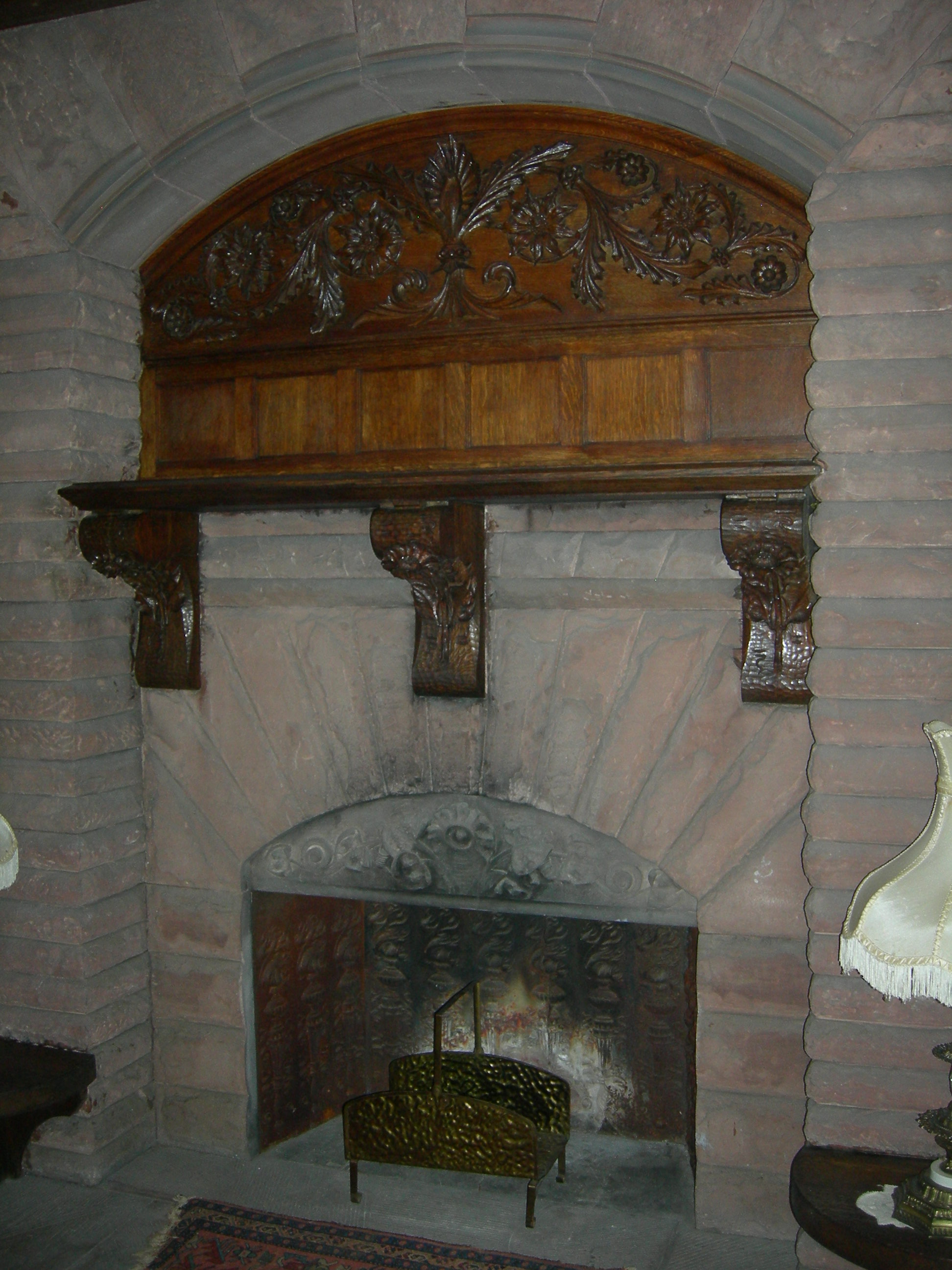 Hall chimneypiece, Brooke Mansion, 301 Washington Street, Birdsboro, Pennsylvania, Frank Furness, architect, 1887-88.